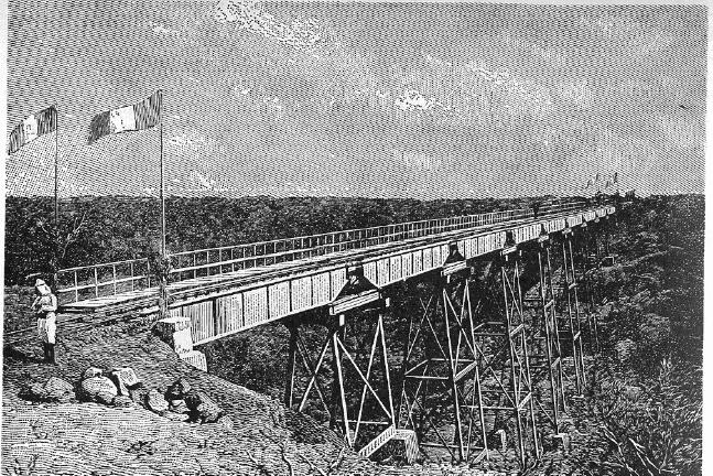 The Djibouti-Addis Ababa Railroad bridge at Shebele. Etching of bridge originally published in Le Monde Illustre, 1898